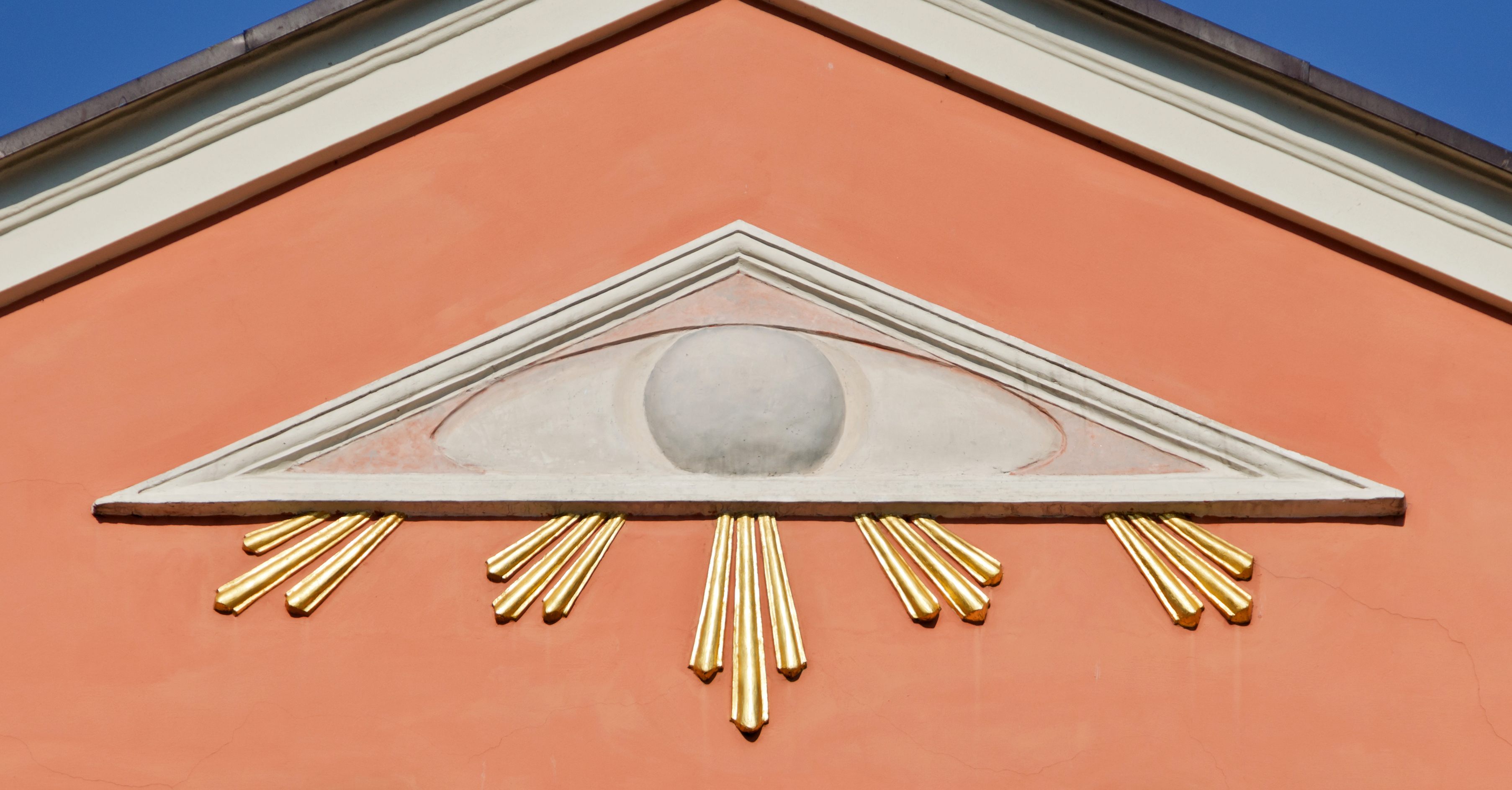 Klahr House in Lądek-Zdrój, Eye of Providence